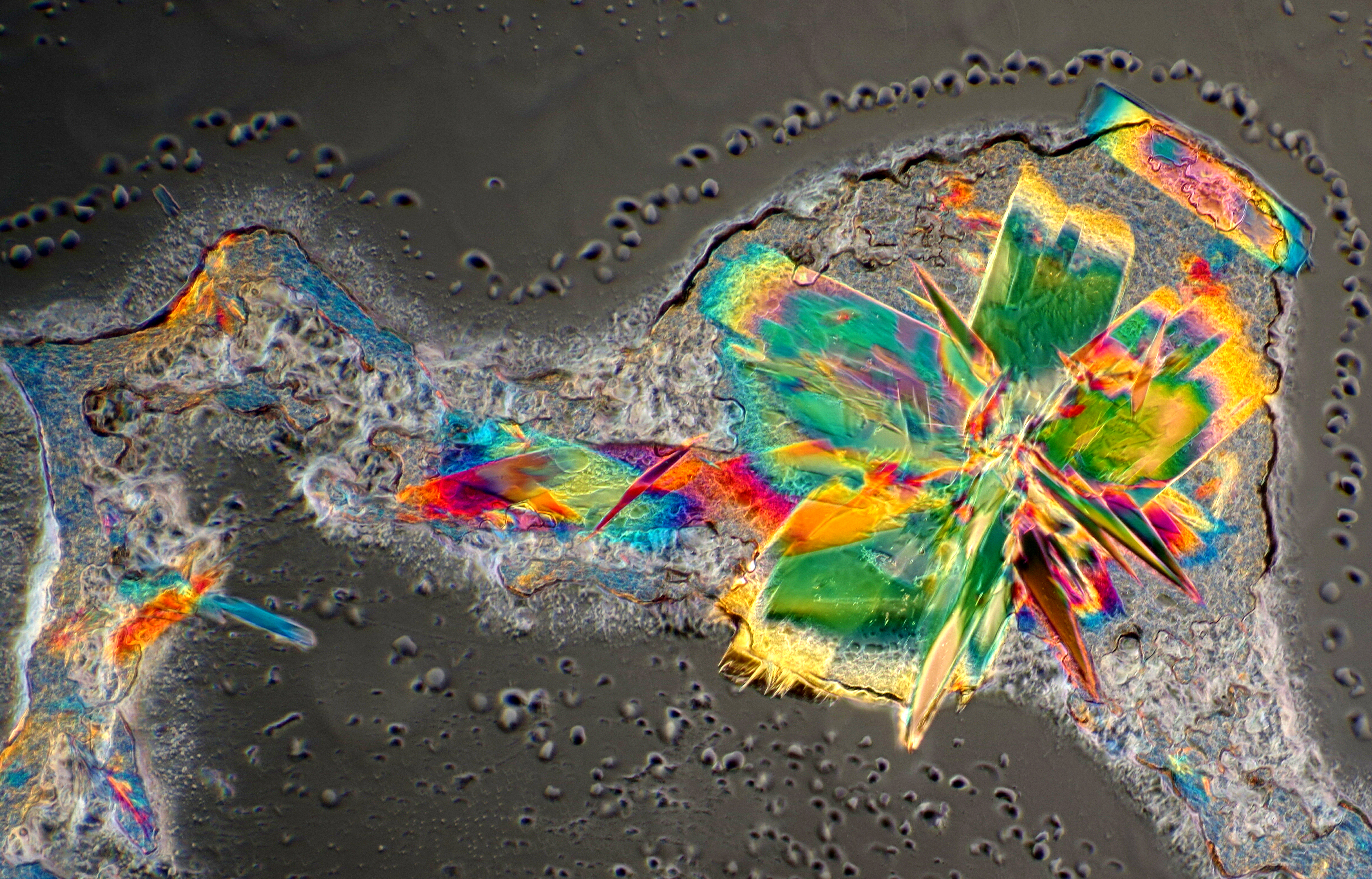 Lactose crystals in human milk. Magnification is 100X. Technique of the illumination: polarized light.